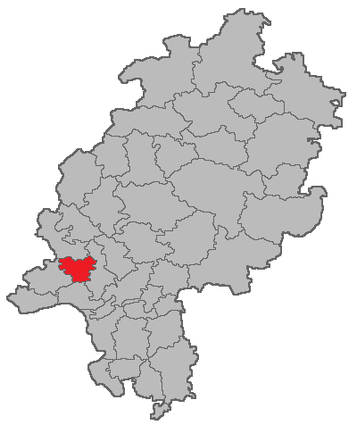 Map of the district court Idstein in Hesse